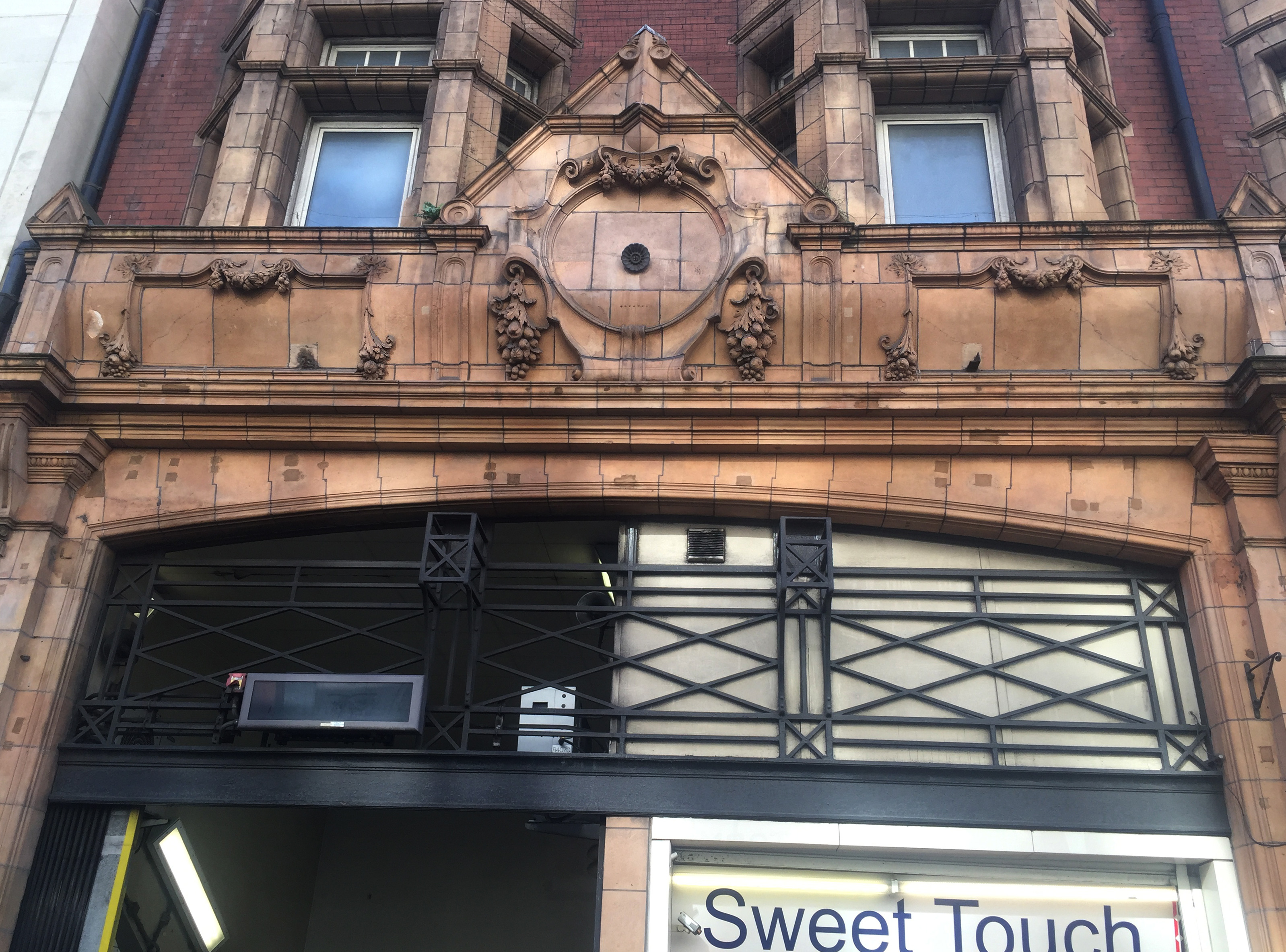 Detail of the façade of Oxford Circus tube station (east exit), London, designed by Harry Bell Measures in 1900